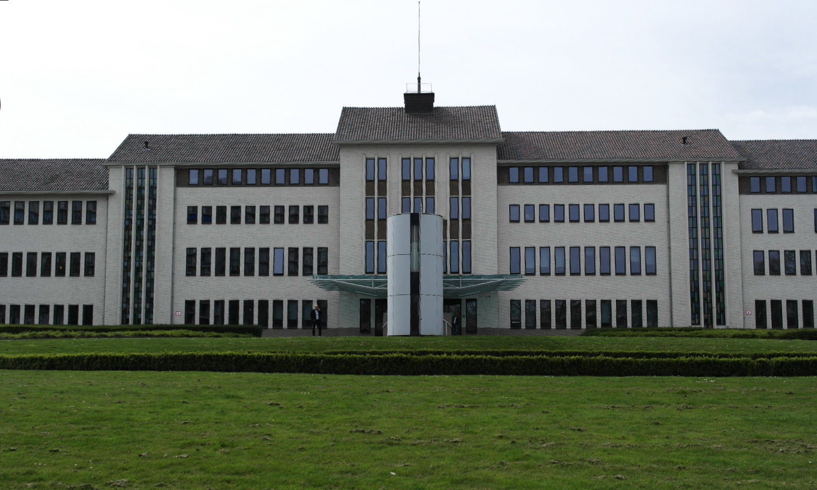 Maastricht, the Netherlands. View of the courts of justice, housed in the former Sint-Annadal hospital buildings in the Maastricht-West neighbourhood of Brusselsepoort.